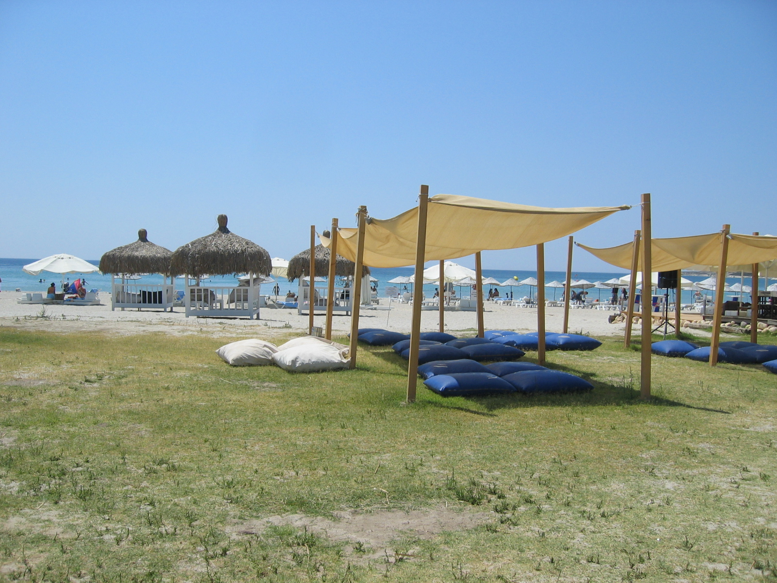 Alacati Beach - Cesme Alacati